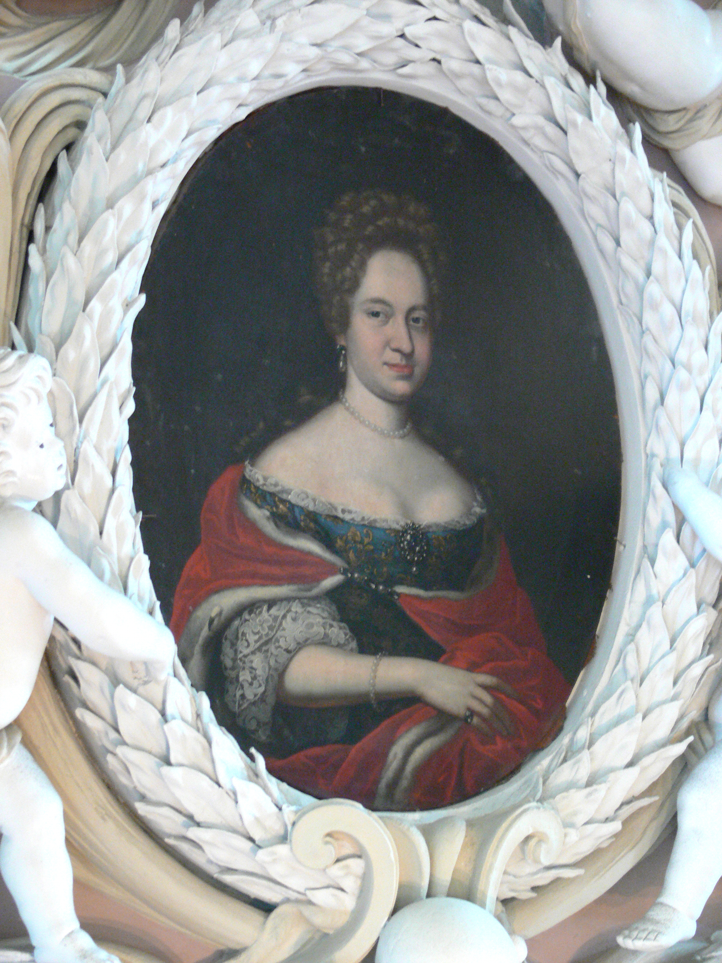 Eisenberg, Thuringia. Interior of the Schlosskirche (palace church). Sophia Maria von Hessen-Darmstadt, 2. Ehefrau von Christian von Sachsen-Eisenach